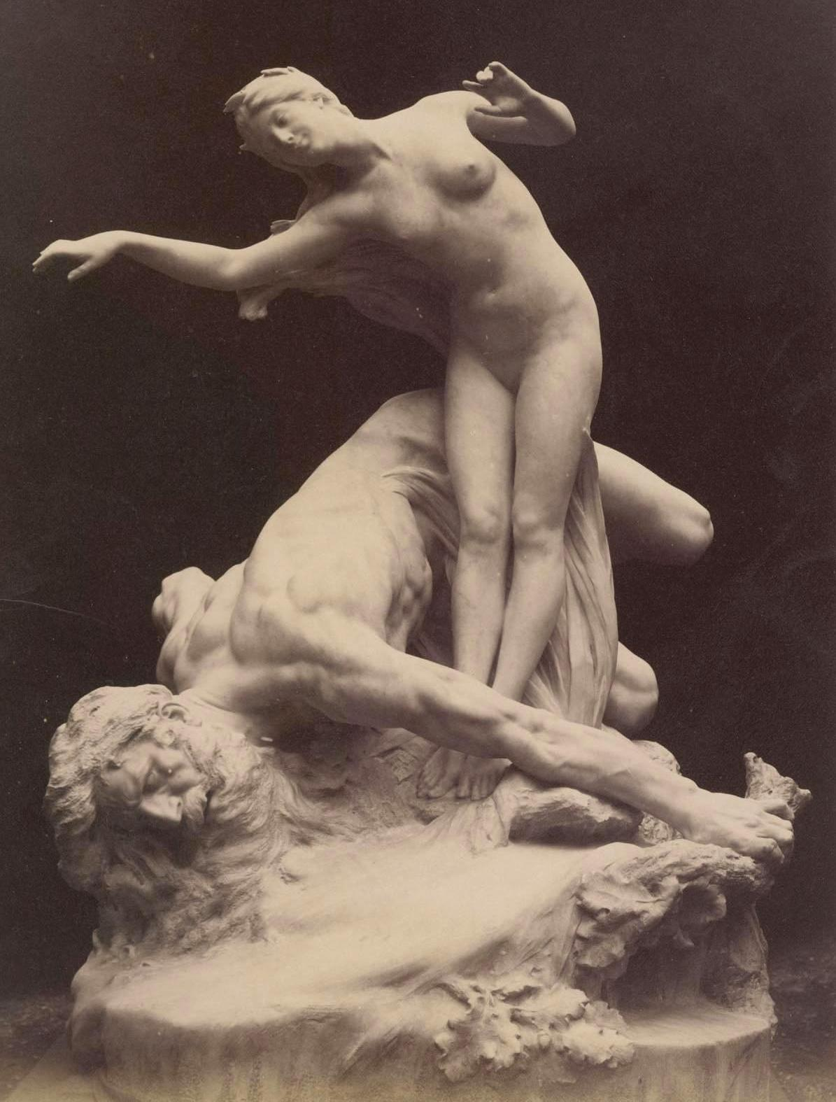 A sculpture of La Fontaine's fable of the Oak and the Reed by Henri Coutheillas, Jardin d'Orsay, Limoges